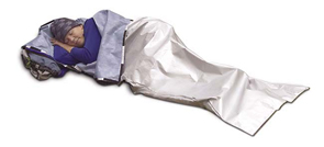 The Emergency Sleeping Bag by Adventure Medical Kits weighs only 2.5 ounces and reflects up to 90 percent of a person’s body heat, making it ideal for survival situations.